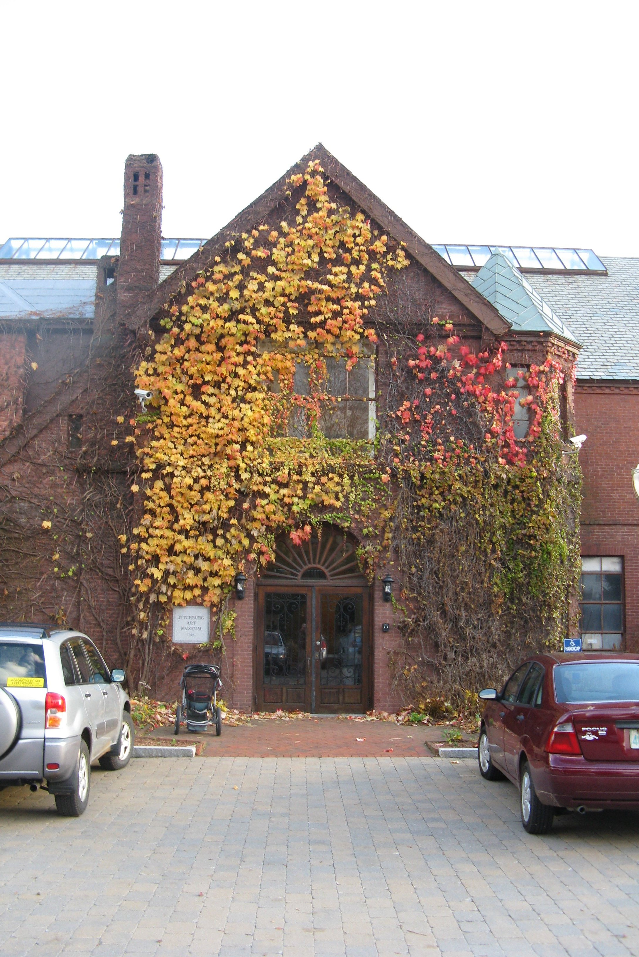 Fitchburg Art Museum, Fitchburg Massachusetts